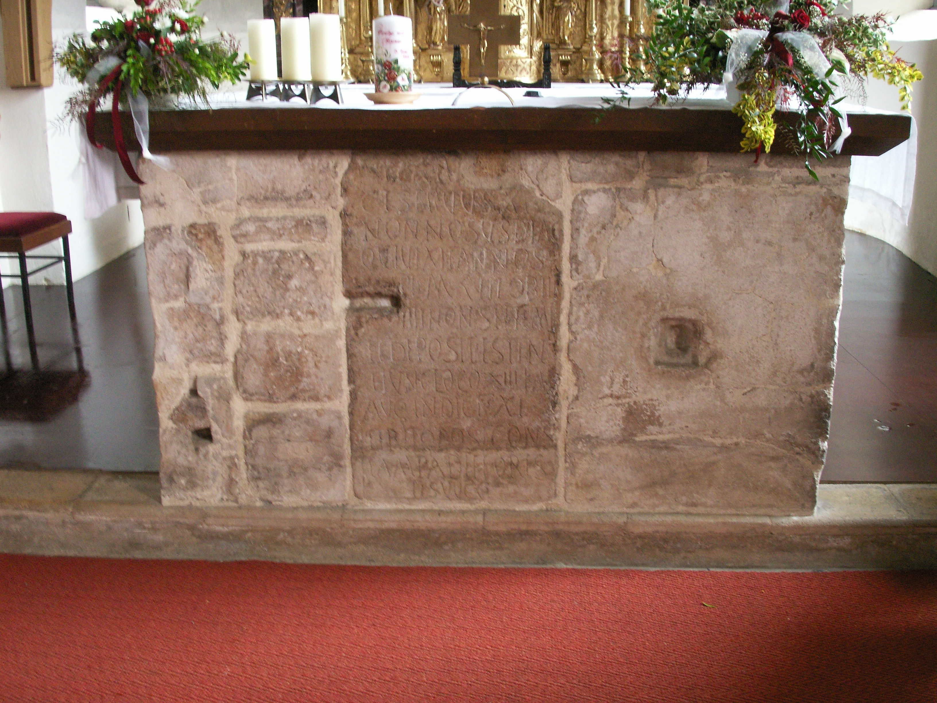 Church in Molzbichl near Spittal an der Drau / Carinthia / Austria / EU. The tombstone carries an early Christian inscription plate that reads: “Here rests the servant of Christ, Nonnosus, deacon, who lived more or less for 103 years. He died on September 2 at this place died on July 20...three years after the consulate of the illustrious men Lampadius and Orestes [i.e. in 533].